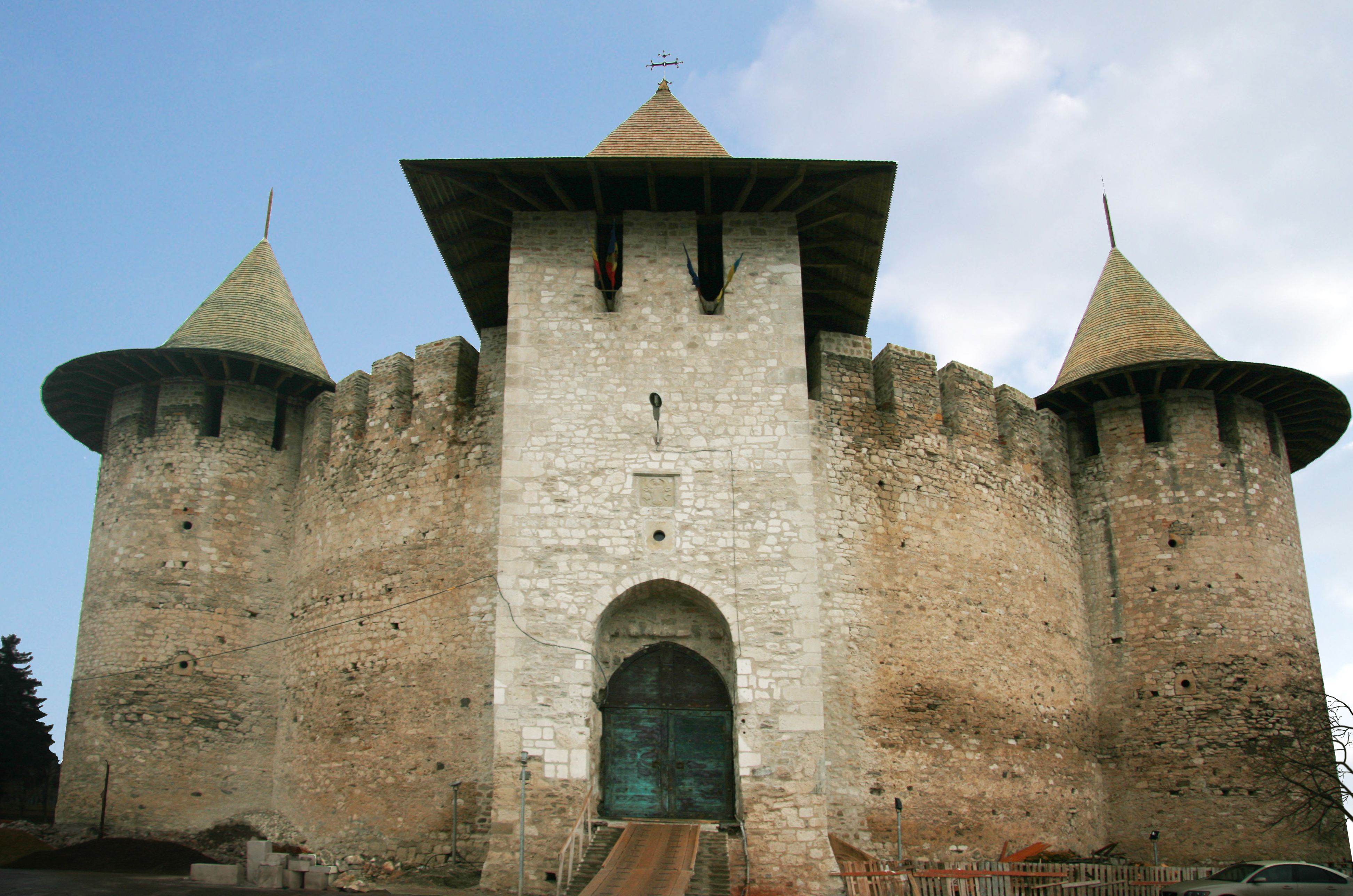 Several new photos from the Soroca forteress, situated in Republic of Moldova, currently in full renovation (2015).